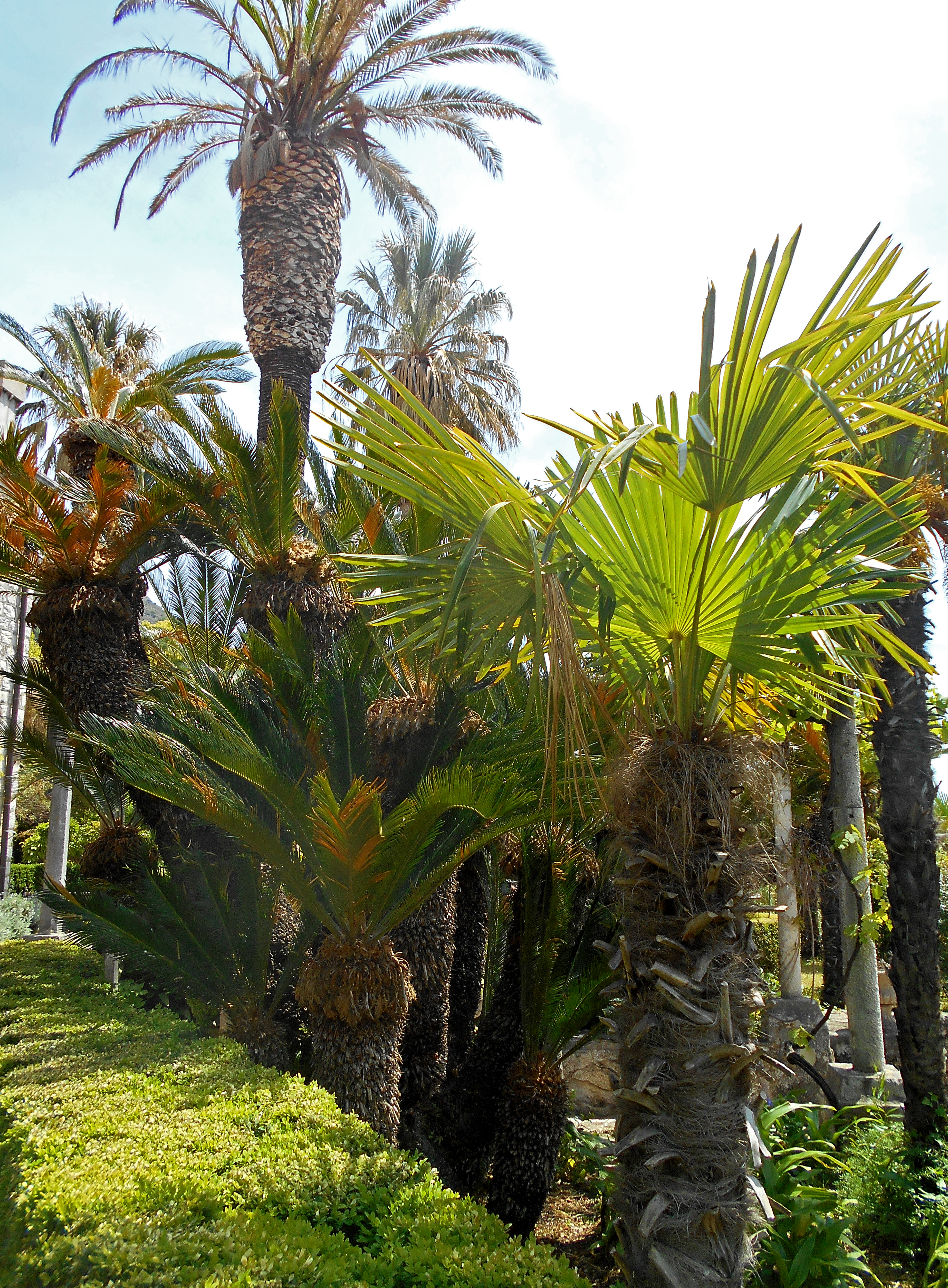 The collection of palm trees in Trsteno arboretum, Croatia